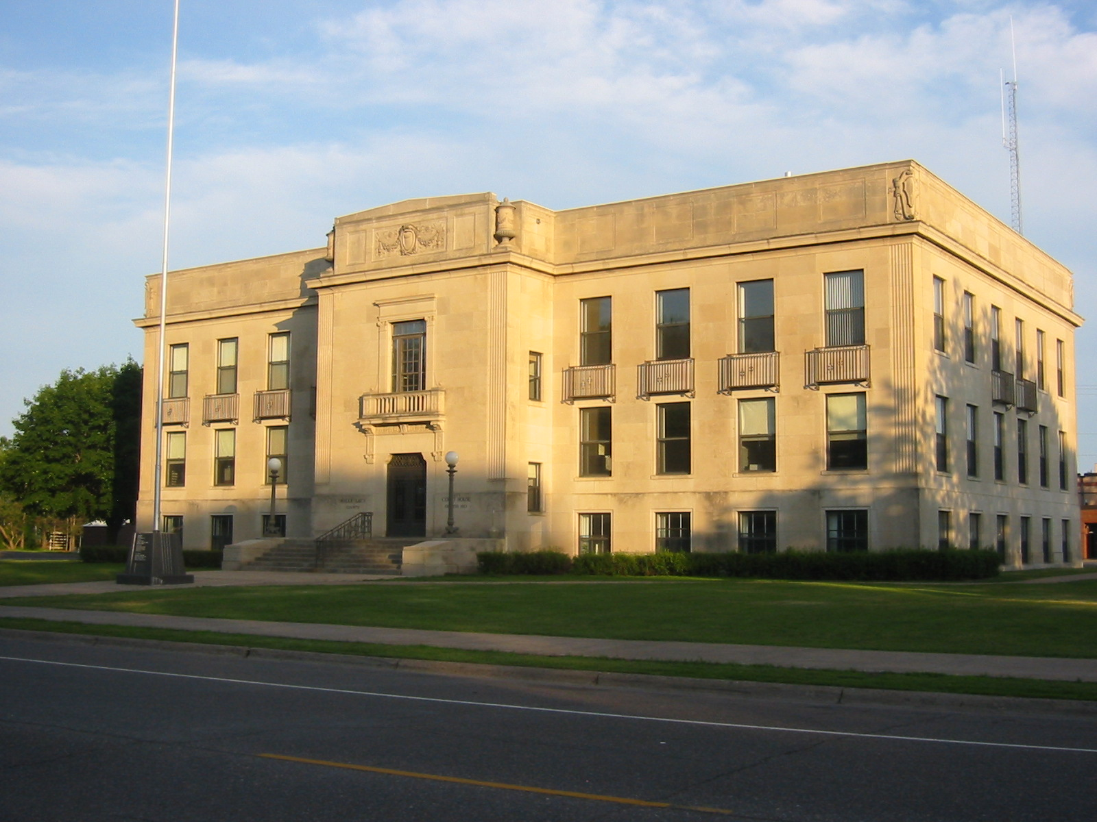 Mille Lacs County Courthouse in Milaca, Minnesota.